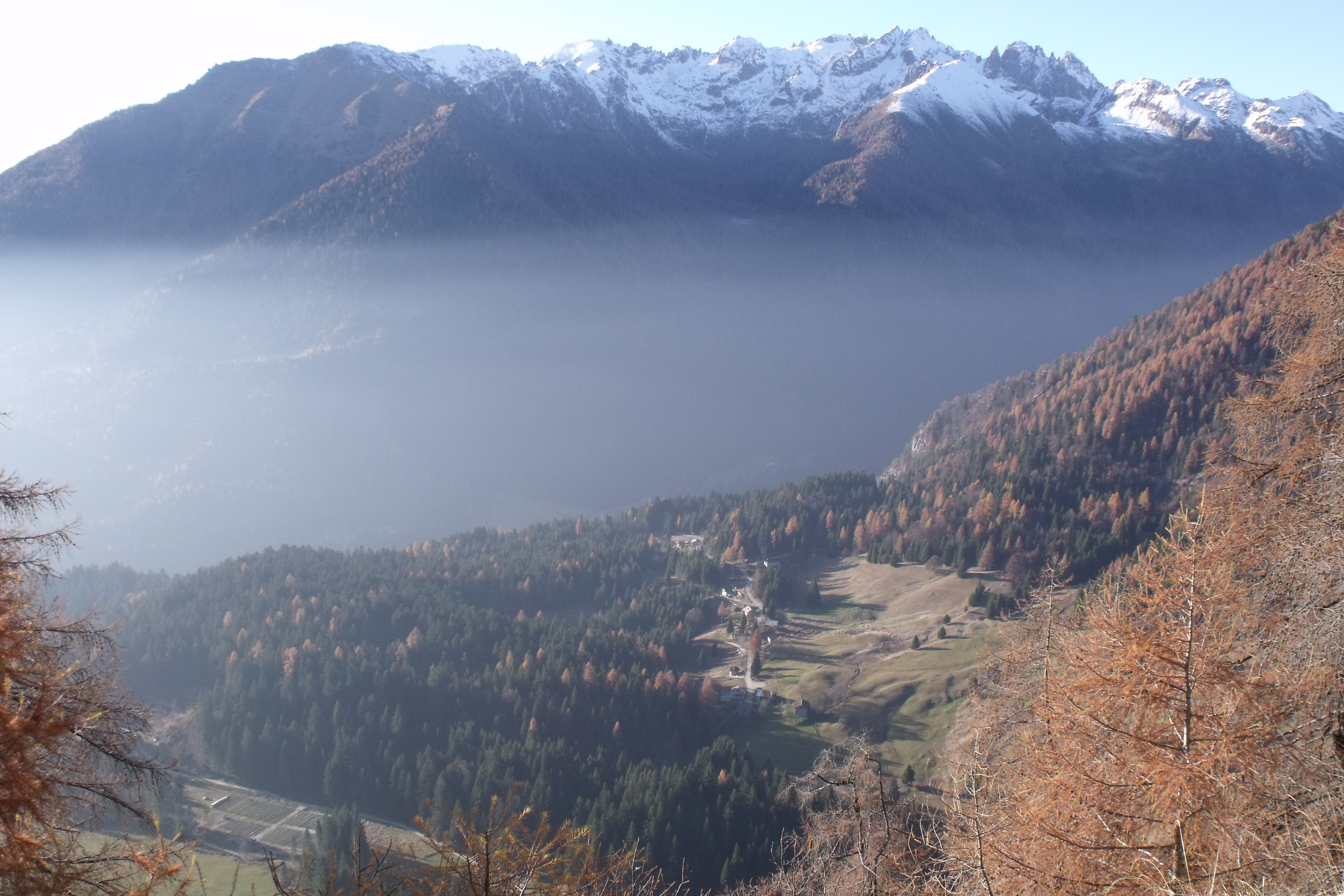 Valle del Tesino seen from Castello Tesino (Fradea), part of the Valsugana, Province of Trento, Trentino-Alto Adige/Südtirol, Italy